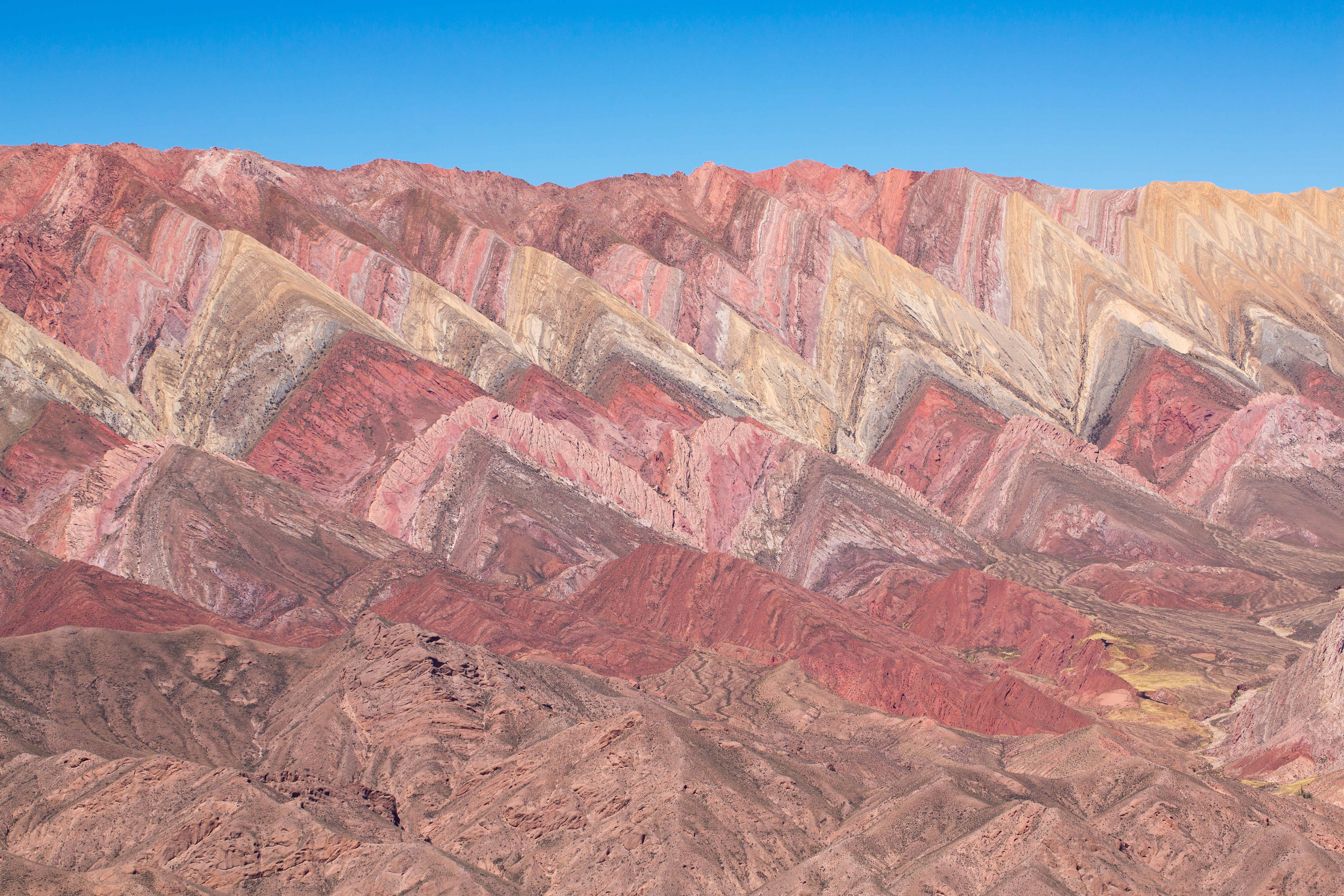 Serranía de Hornocal near Huamahuaca, Jujuy Province in Argentina.